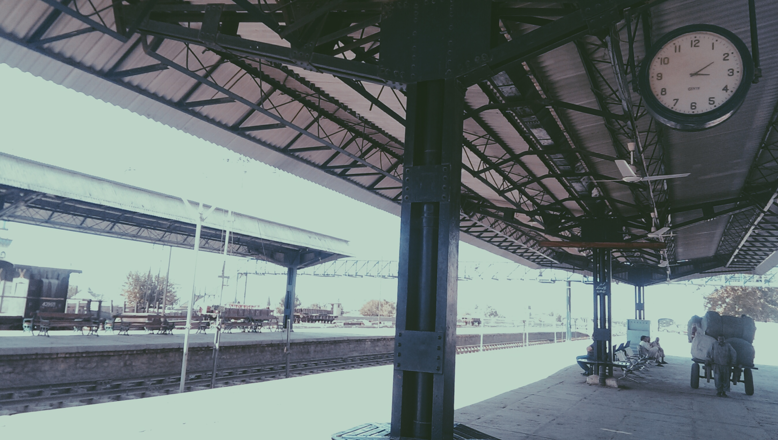 Railway Station This is a photo of a monument in Pakistan identified as the BA-U-35